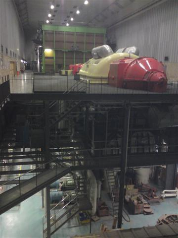 Inside of the Petroleum fired power station in Stenungsund, Sweden.